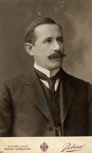 Portrait of Rudolf Lössl (1872-1915), Austrian politician.